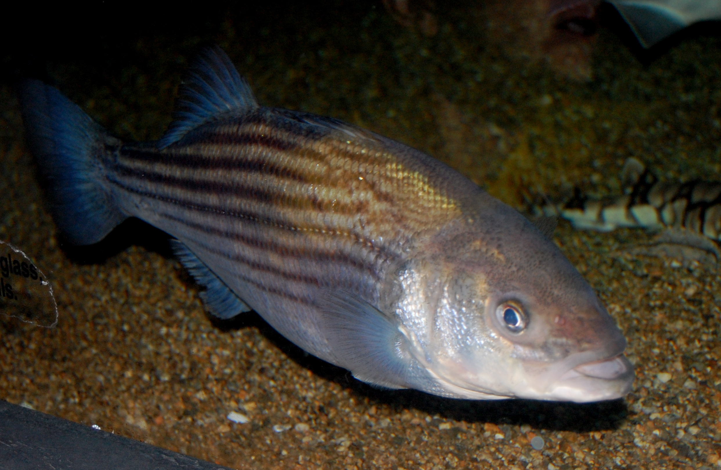 Striped bass (Morone saxatilis) at the New England Aquarium, Boston MA.